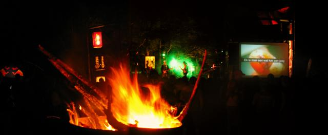 Catching fire during Piet Botha's set at the Levi Stage. Piet was excellent as always. An SA rock legend and a pure gentleman. I loved the Vusi Mahlasela collaboration.